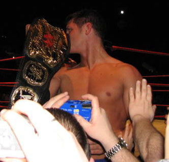 Cody Rhodes as World Tag Team Champion.